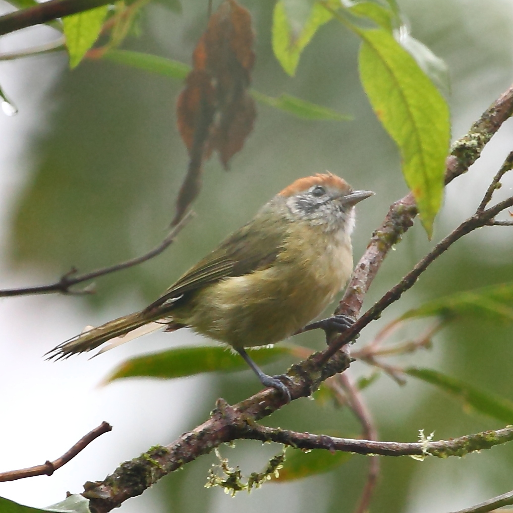 Rufous-crowned Greenlet at São Luiz do Paraitinga - SP - Brazil